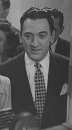 Hector Ferraro-actor